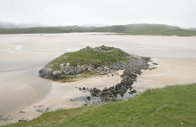 Borranais Dun Iron-age fortified tower built on natural rock with a man-made causeway over the stream.